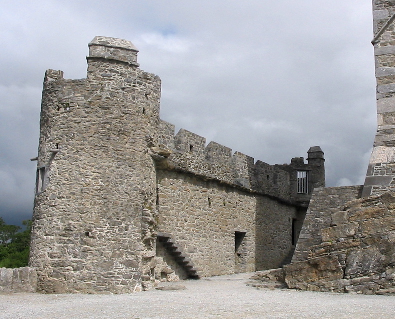 The remains of a Bawn wall at Ross Castle, Killarney, County Kerry, Ireland. Digital photo taken by User:Tpower, 7-30-05.